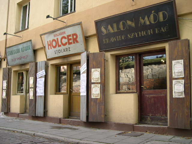 Street view in Kazimierz, Krakow, Poland.